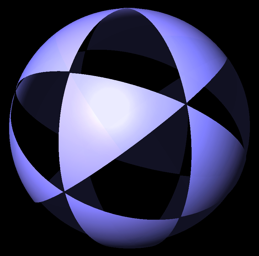 KaleidoTile, Topology and Geometry Software, Jeff Weeks Spherical domains for tetrahedral symmetry